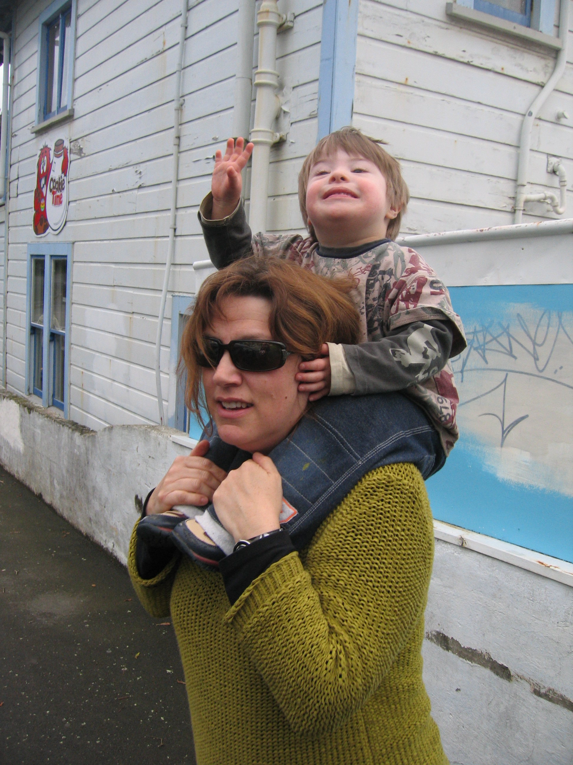 a child (with Down syndrome) piggy-backing on an adult